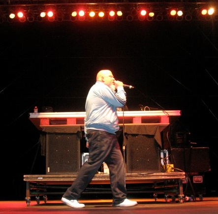 Brother Ali performing in Michigan summer 2011.